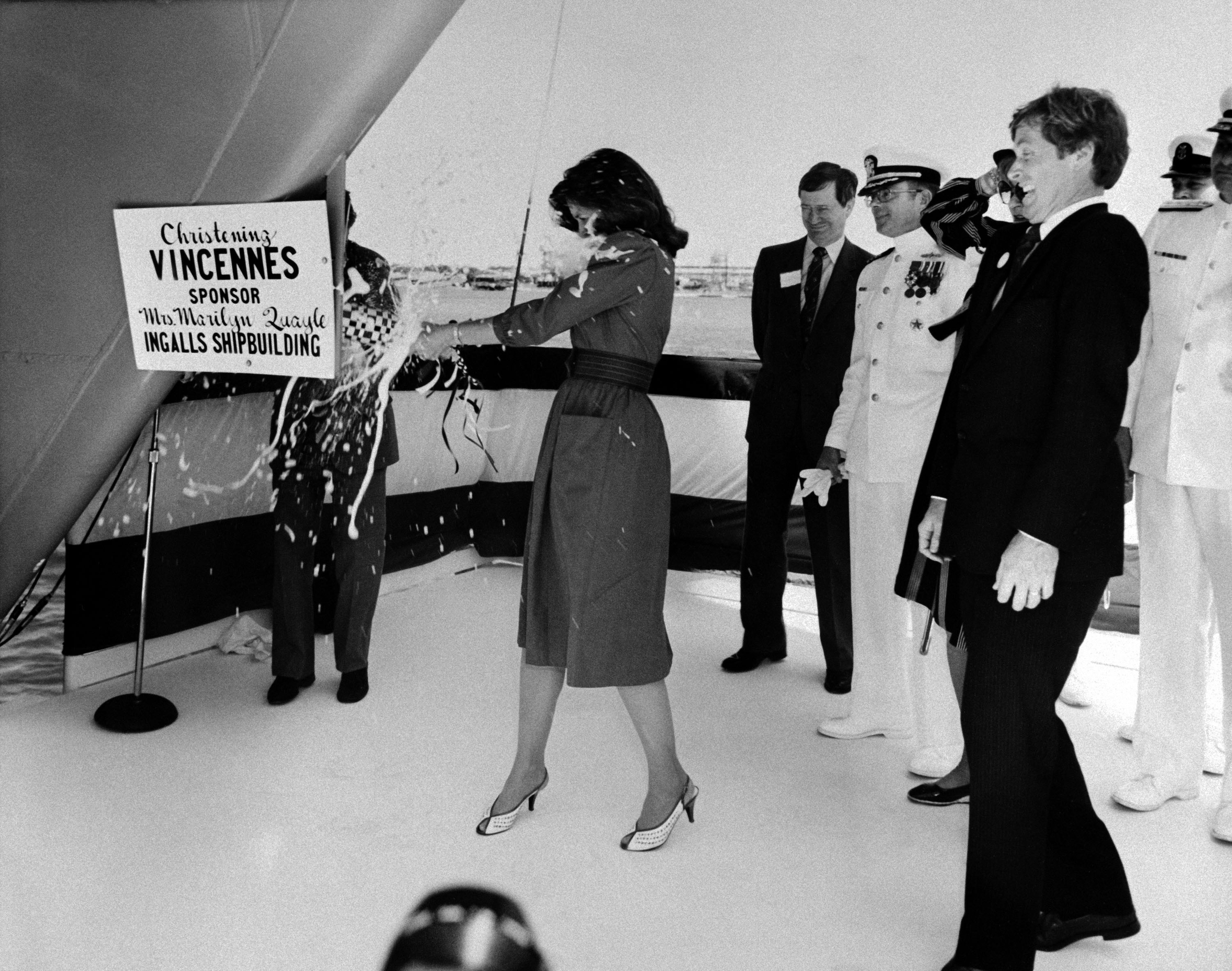 Marilyn Quayle, sponsor, christens the Aegis guided missile cruiser USS VINCENNES (CG 49) by breaking a bottle of champagne on its bow during a ceremony at Ingalls Shipbuilding, 4/14/1984